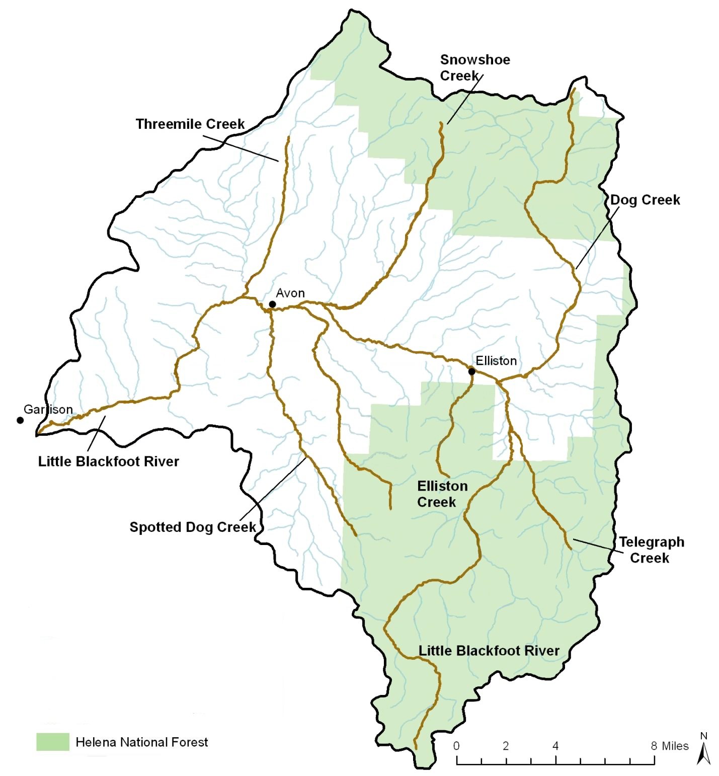 Map showing the Little Blackfoot River in Montana in the United States, along with tributary rivers and streams that form its watershed. Areas which are part of the Helena National Forest are shown in light green.